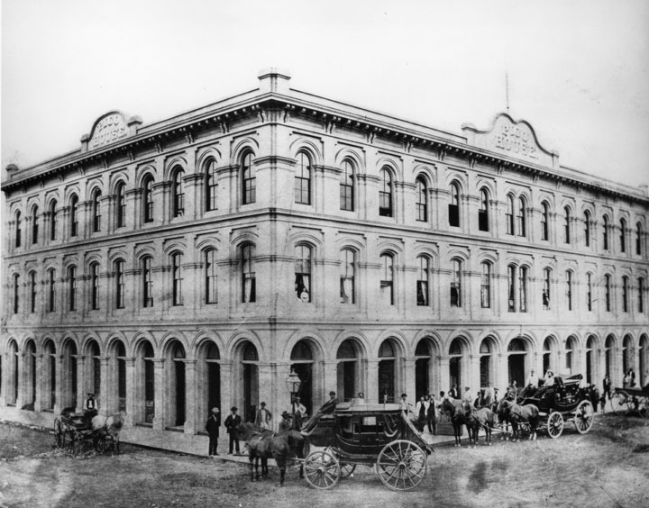 The Pico House hotel, in 1875. On North Main Street at the Pueblo de Los Angeles Plaza in Los Angeles, California. Designed by Ezra F. Kysor and built by Governor Pio Pico in 1869-70, this structure initially served as a lavish 80-room hotel. The Pico House is California Historic Landmark #159 and National Historic Landmark NPS-72000231.